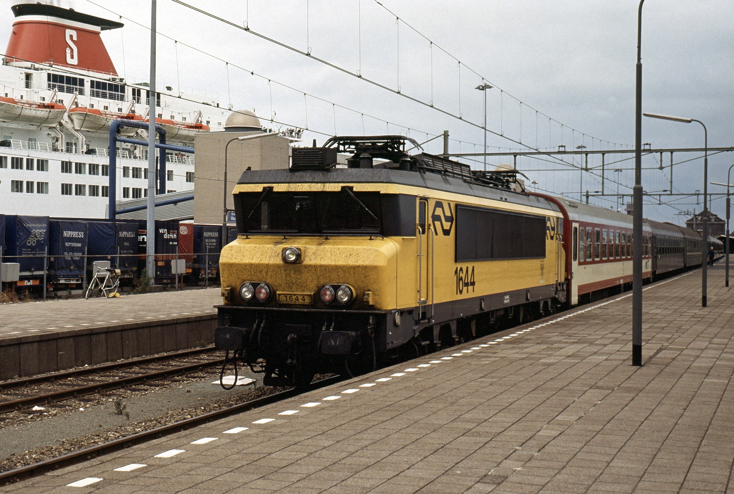 Hoek van Holland Haven train station